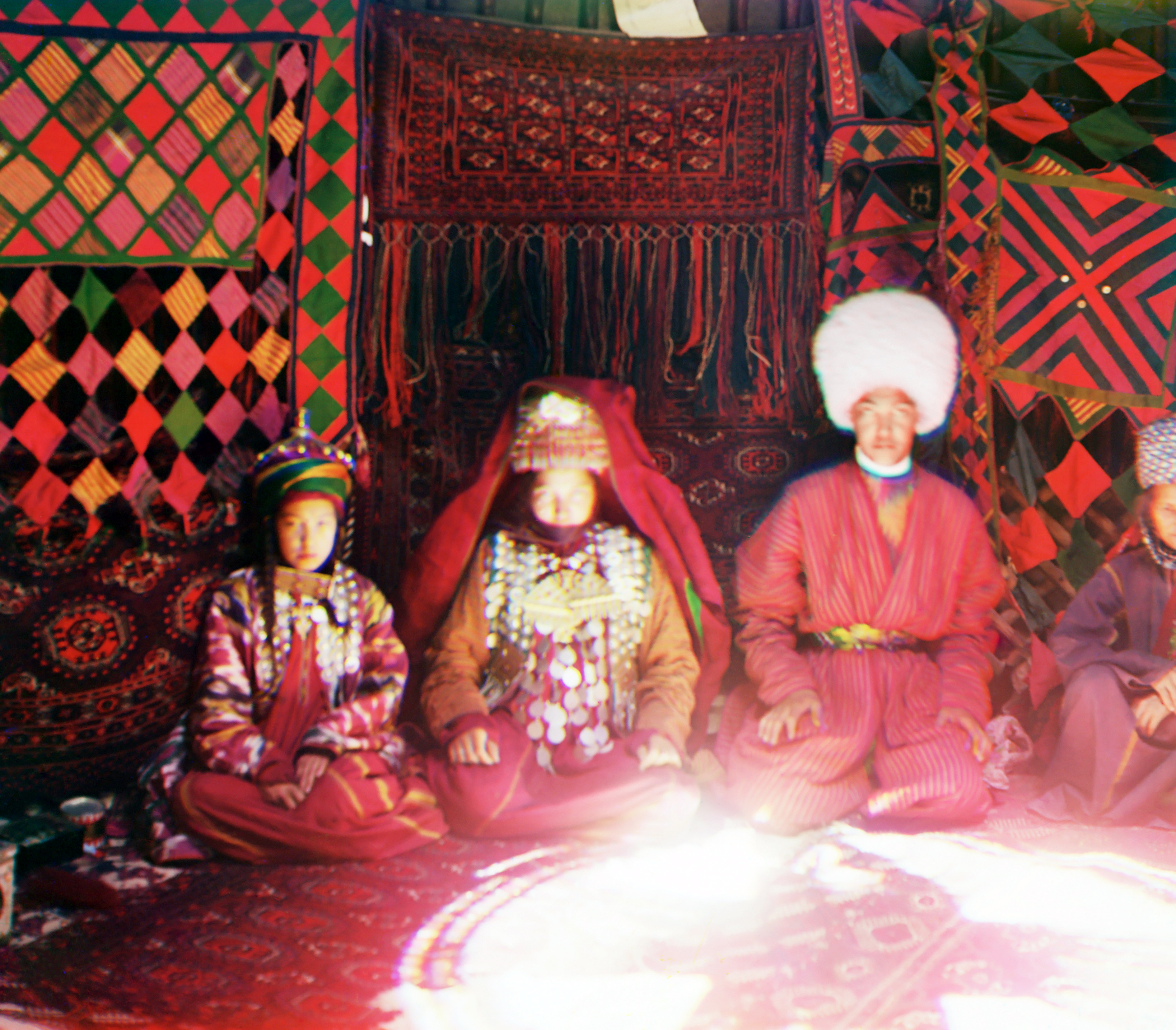 Original Description: Four people seated on a carpet, in front of a backdrop of textiles.